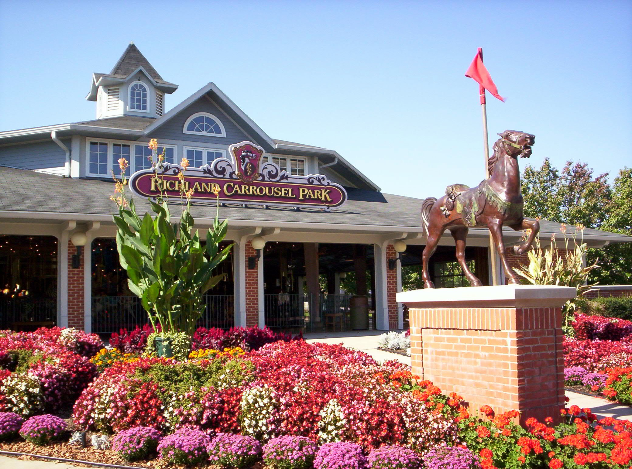 A view of the Richland Carrousel Park on the southwest corner of North Main Street and West 4th Street in downtown Mansfield, Ohio.